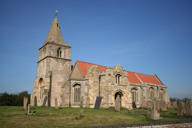 St.Giles' church, Holme Fantastic, largely 15th century church paid for by wool merchant John Barton c1485